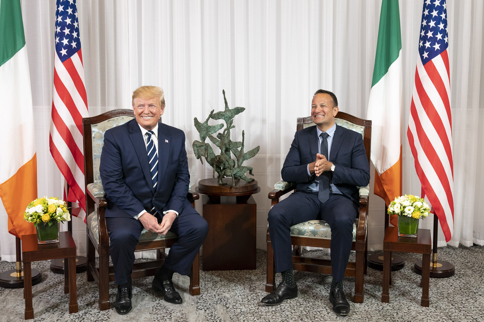 President Donald J. Trump and Irish Prime Minister Leo Varadkar participate in a one on one bilateral meeting Wednesday, June 5, 2019, at Shannon Airport in Shannon, Ireland. (Official White House Photo by Shealah Craighead)